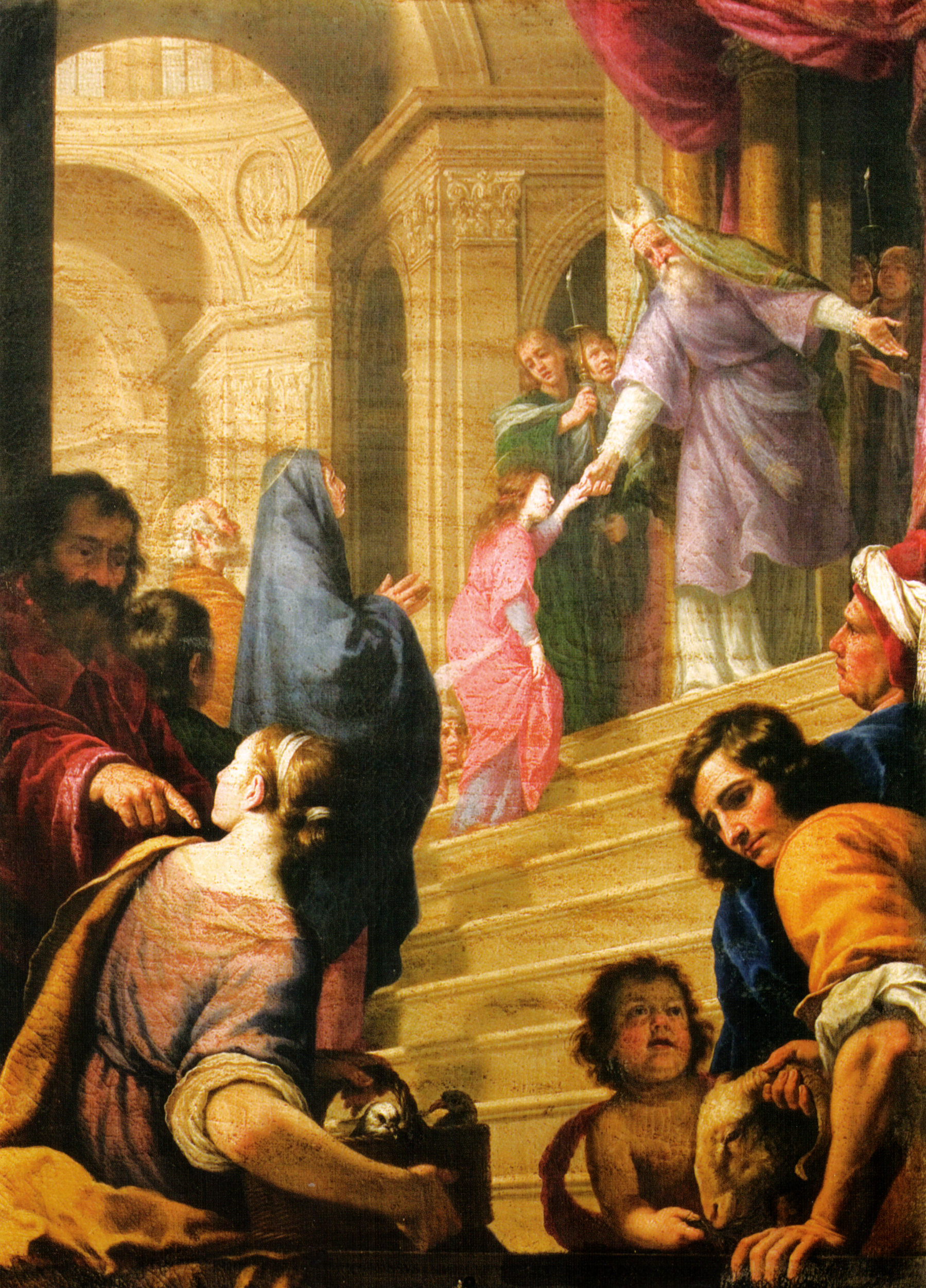 The Presentation of the Virgin Mary in the Temple of Jerusalem